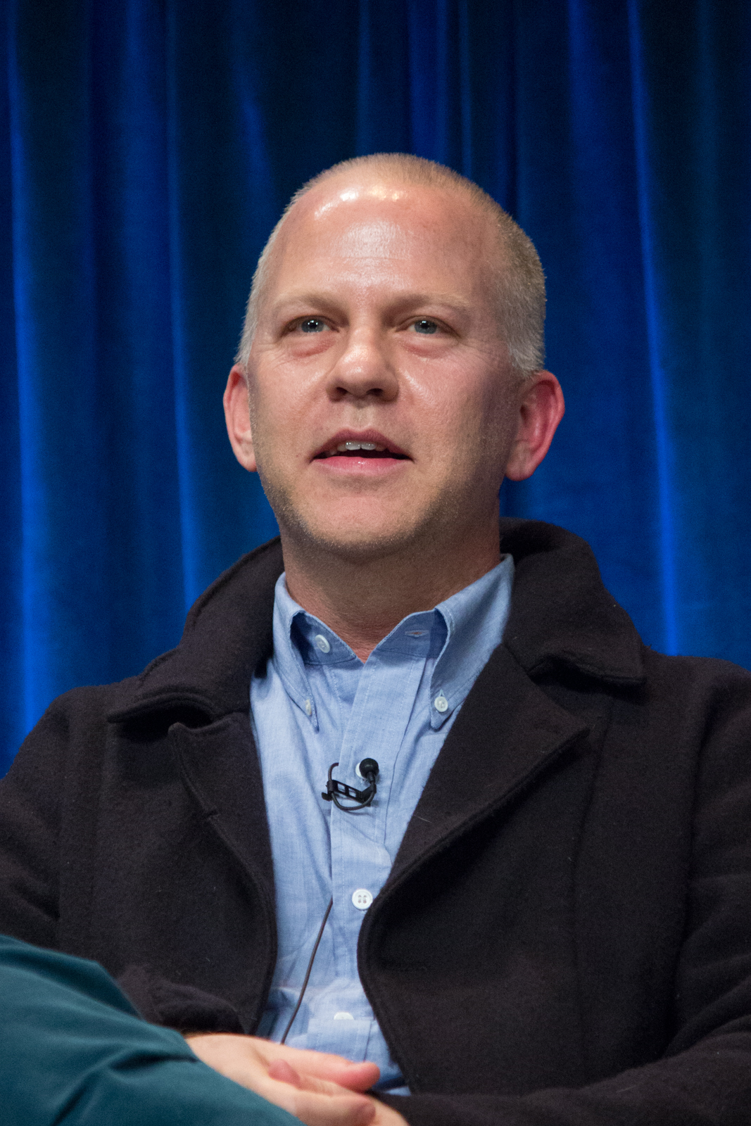 Ryan Murphy at the PaleyFest 2013 panel on the TV show "The New Normal"